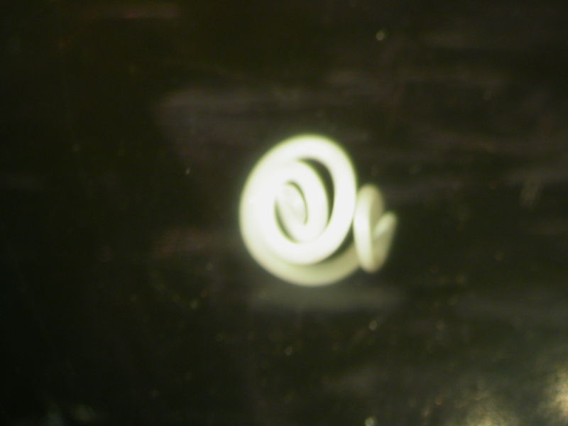 Anisakis simplex in a characteristic "watch-spring coil" shape